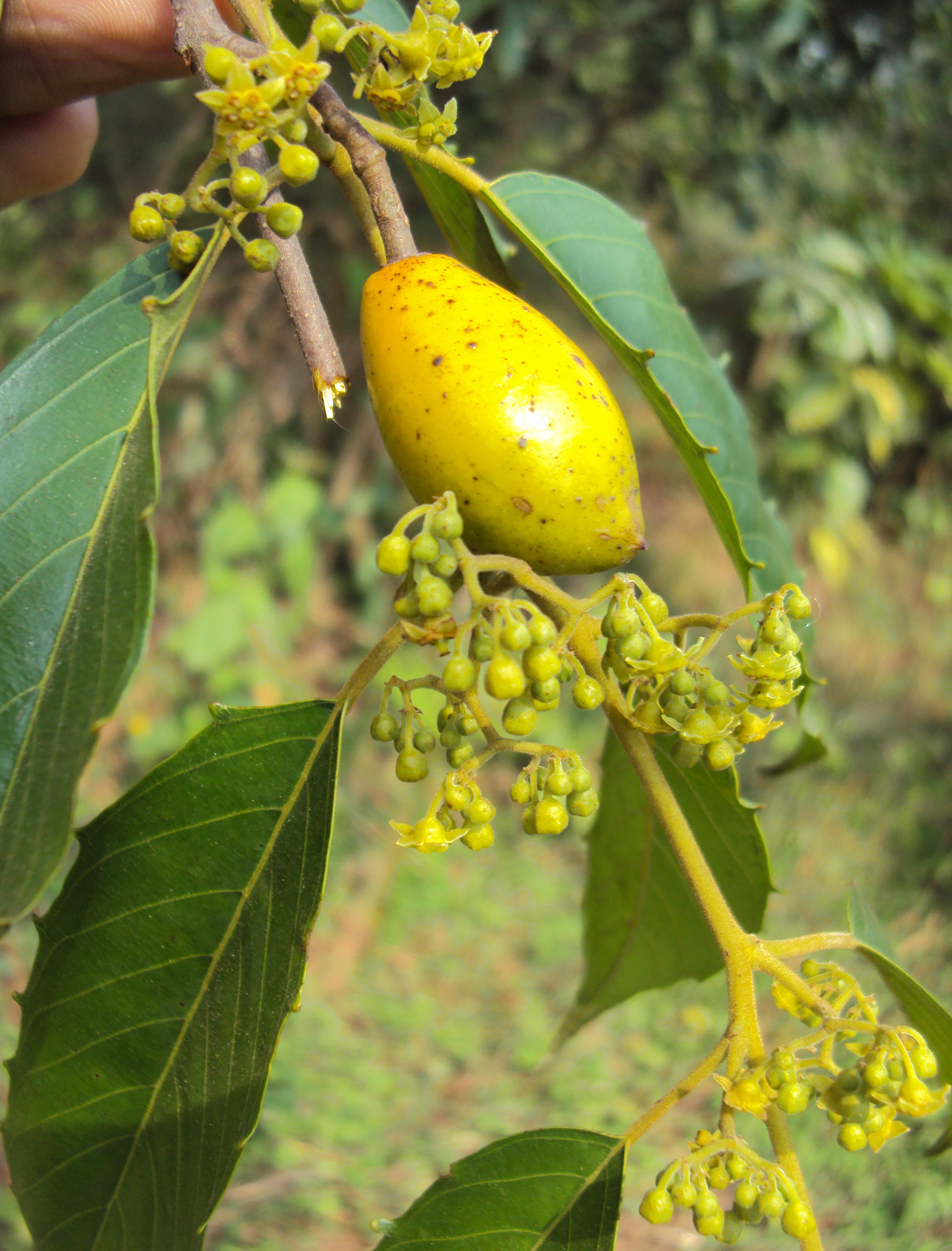 Maesopsis eminii